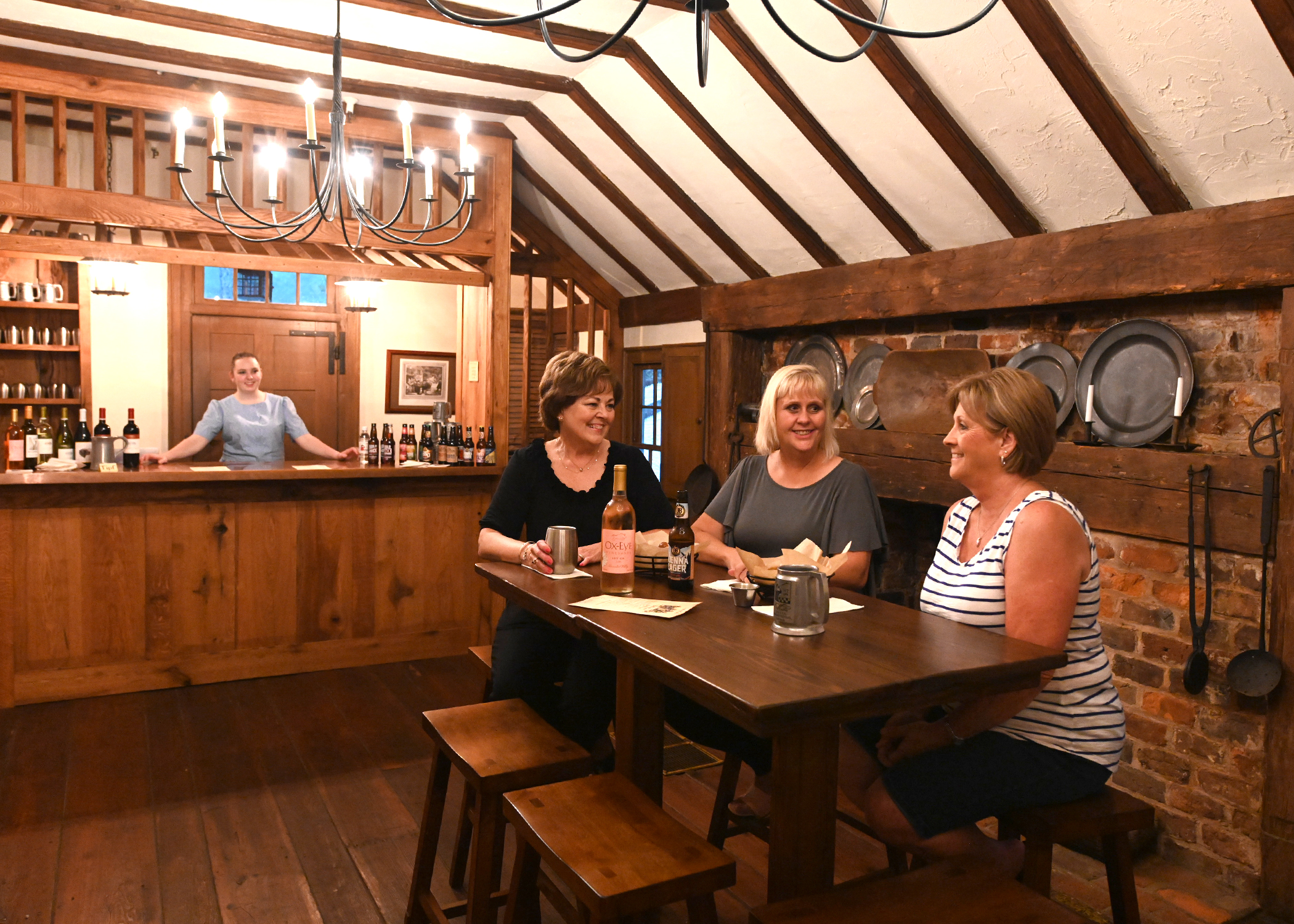 Taste 1784 Pub style enjoyment